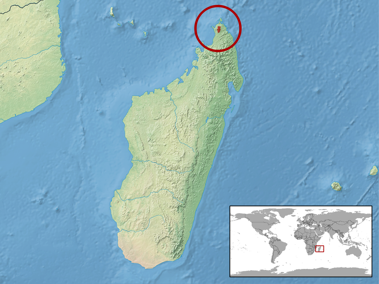 geographic distribution of Furcifer timoni (Native: Madagascar)